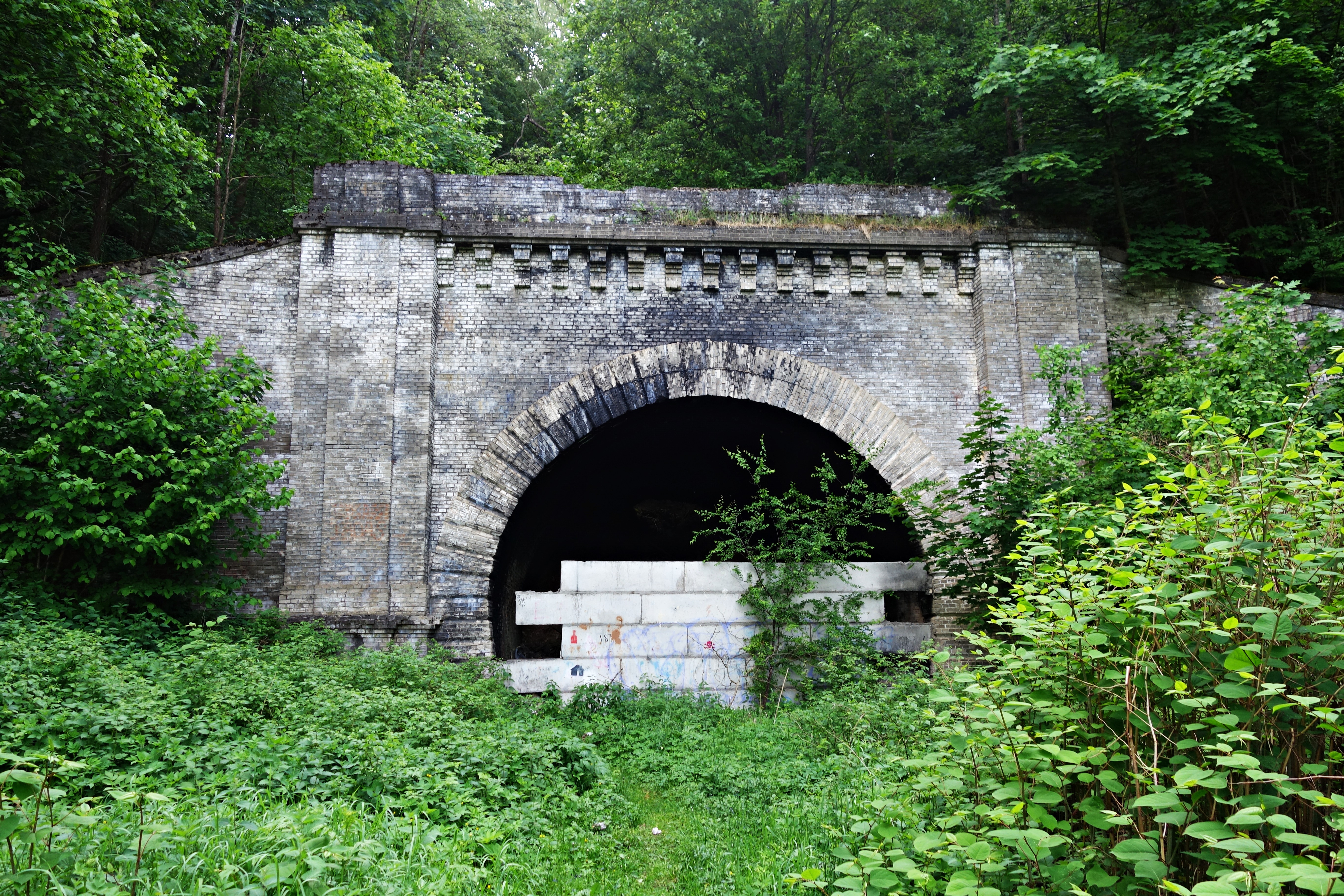 Eastern portal of the Paneriai tunnel